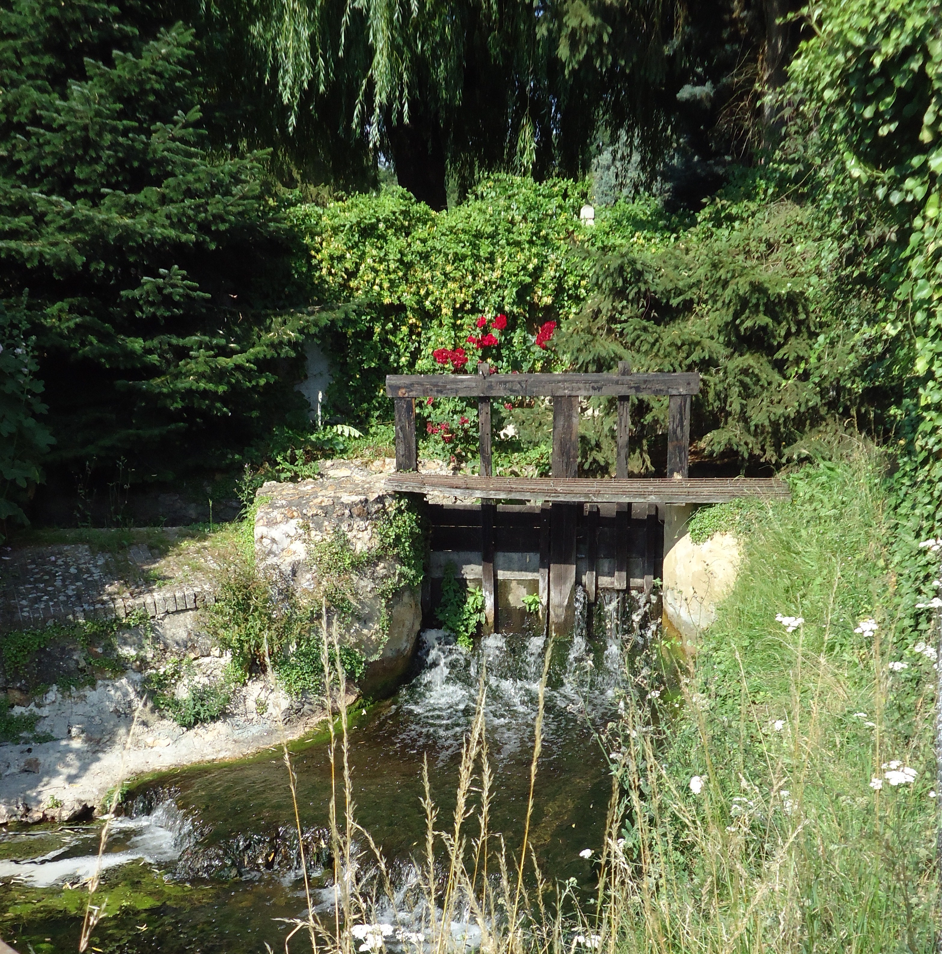 Vannage du Moulin Mulot - Sylvains-les-Moulins - Eure (27)